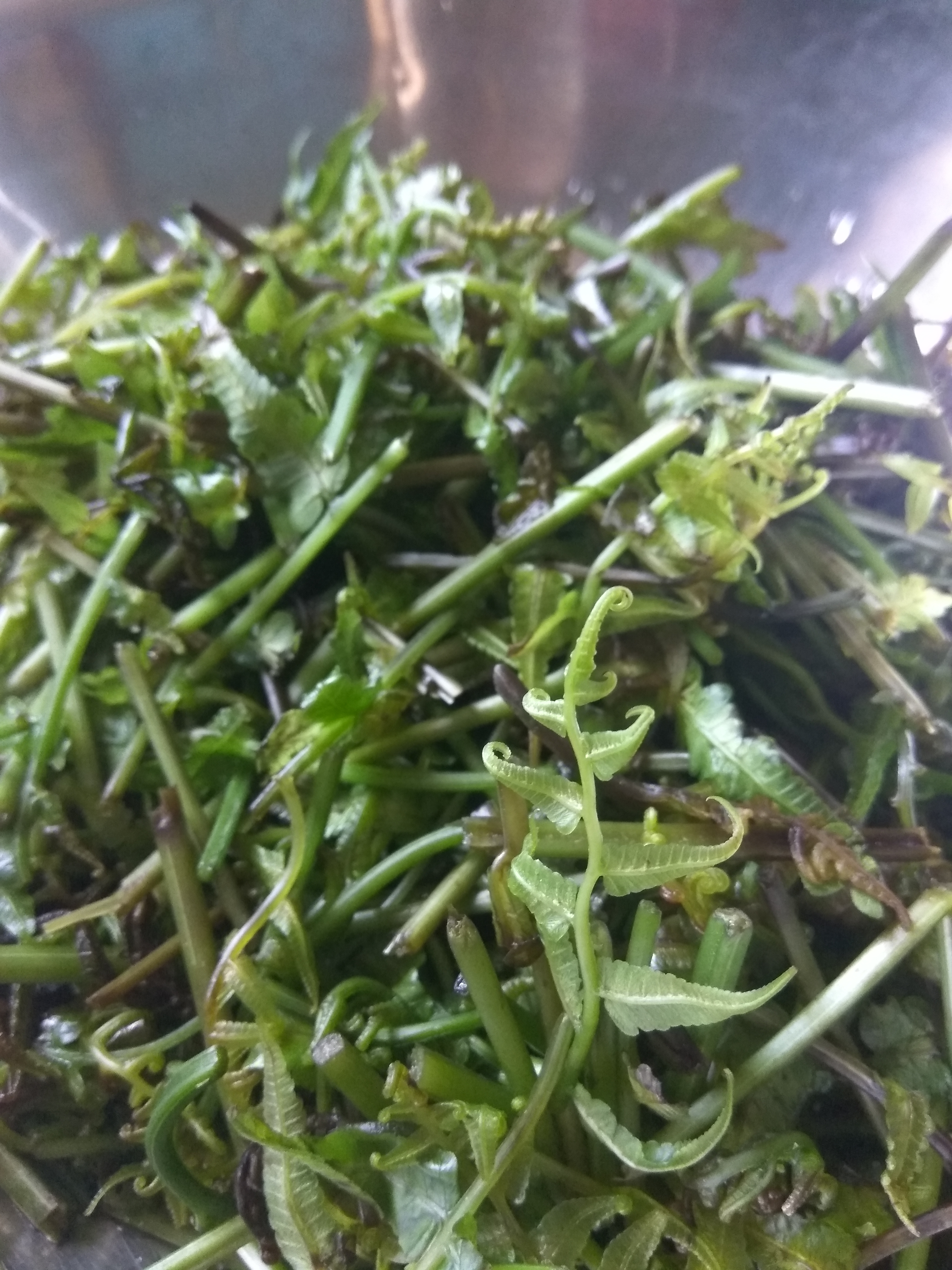 Fiddlehead Fern as a vegetable, ready to cook. Known as “Niyuro ko saag (नियुरोको साग)” in Nepali.